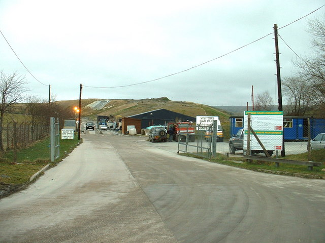 Llanidloes Land Fill site Privately operated, by Potters Waste Management. It seems out of place in such idyllic countryside, but it's a good reminder of the impact of our wasteful society.